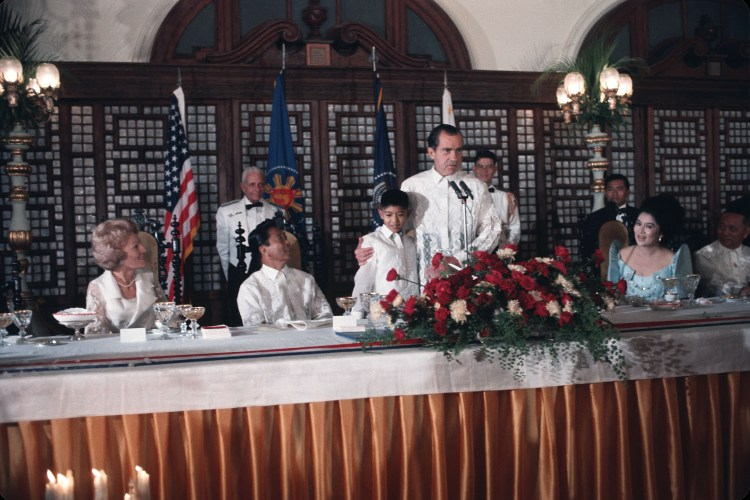 Philippine President Ferdinand Marcos and First Lady Imelda Marcos meet US President Richard Nixon.